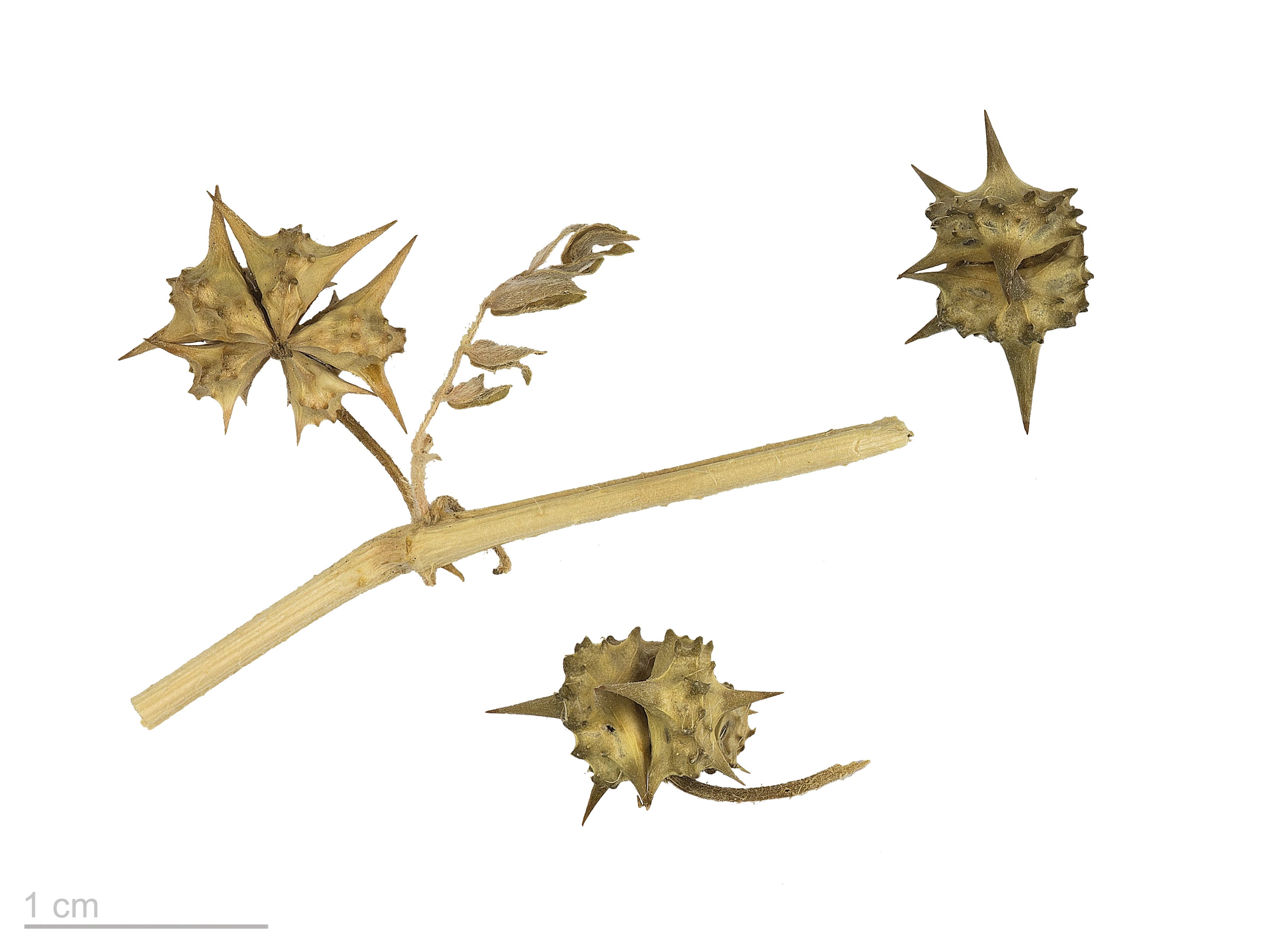 Tribulus terrestris, seeds